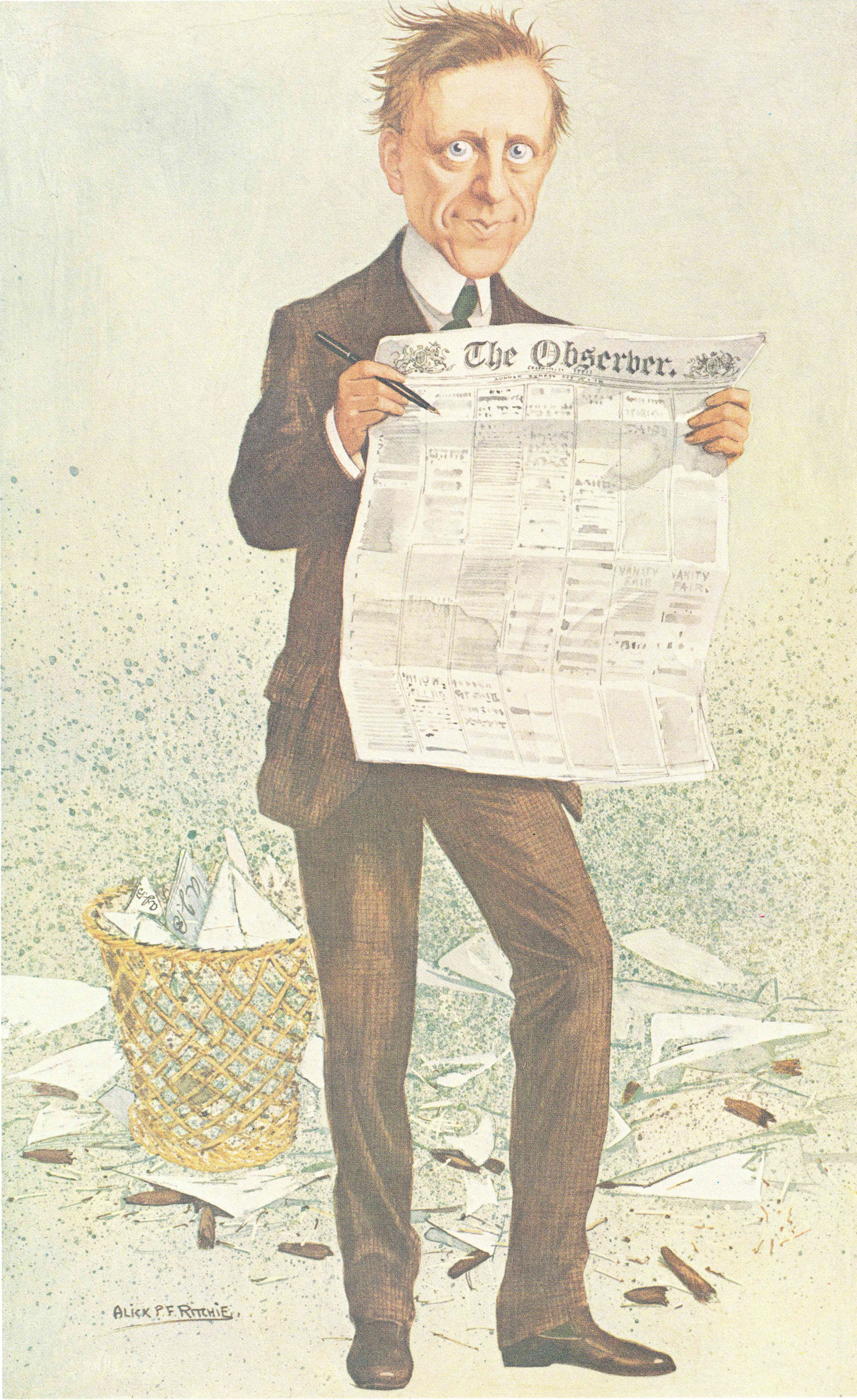 Men of the Day No.1269: Caricature of James Louis Garvin. Caption reads: "?-!"